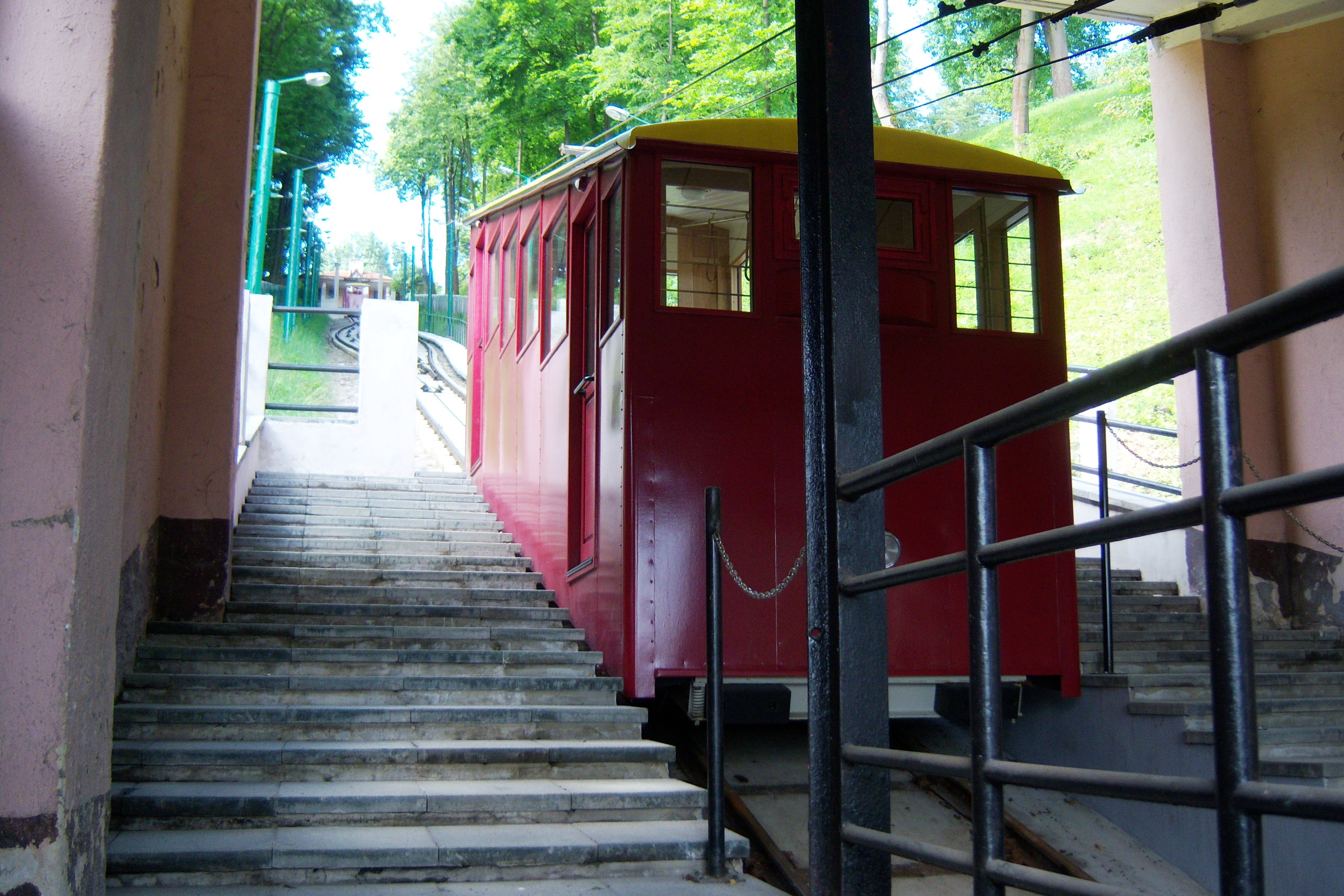 Aleksotas Funicular Railway, Kaunas, Lithuania